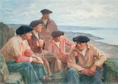 Oil on canvas by French Artist Henri Royer (1869-1938)